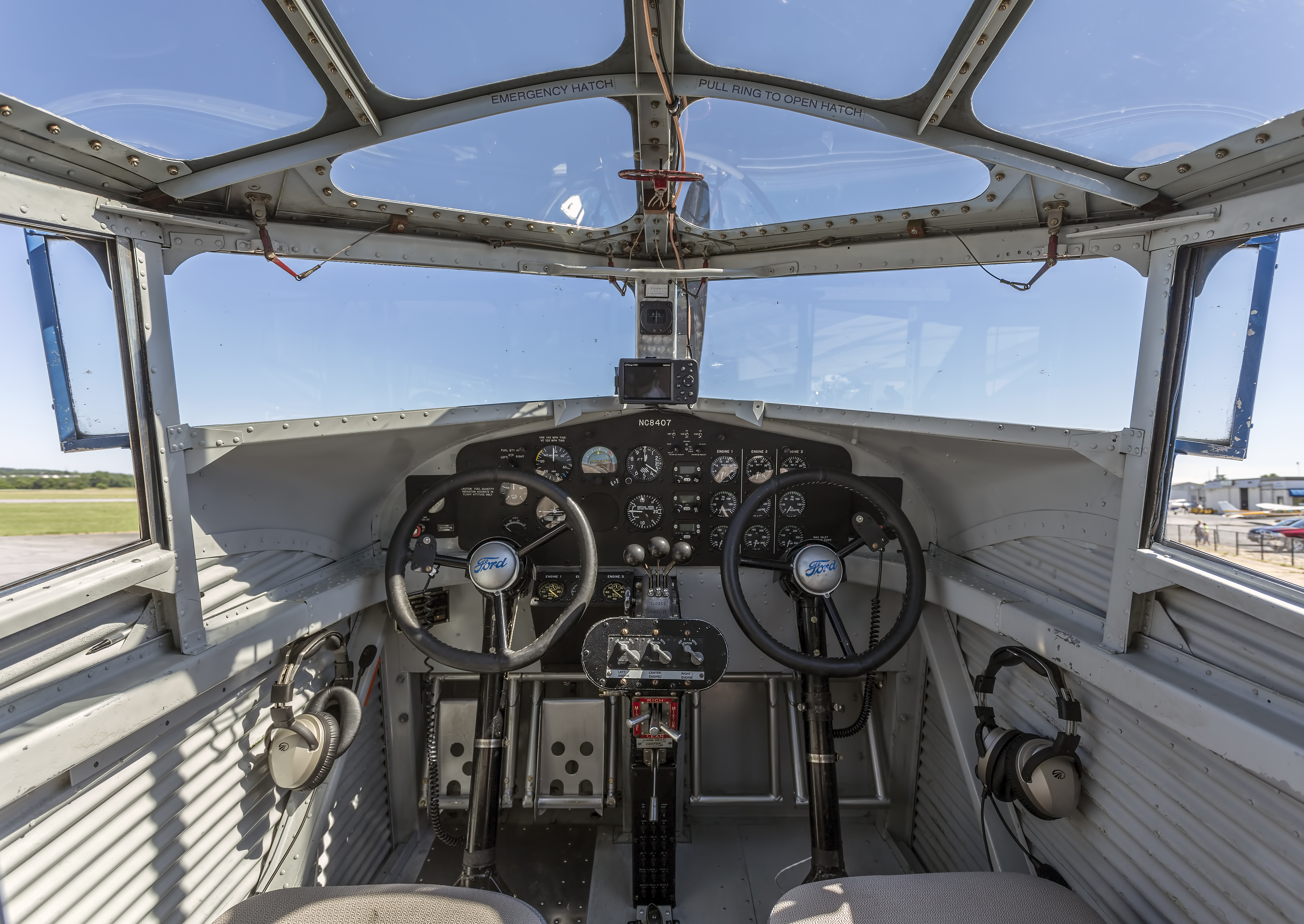 Ford 4-AT Tri-Motor NC8407 at Frederick Airport, Maryland, USA. (The spots on the windshield are insects that the airplane caught up with)